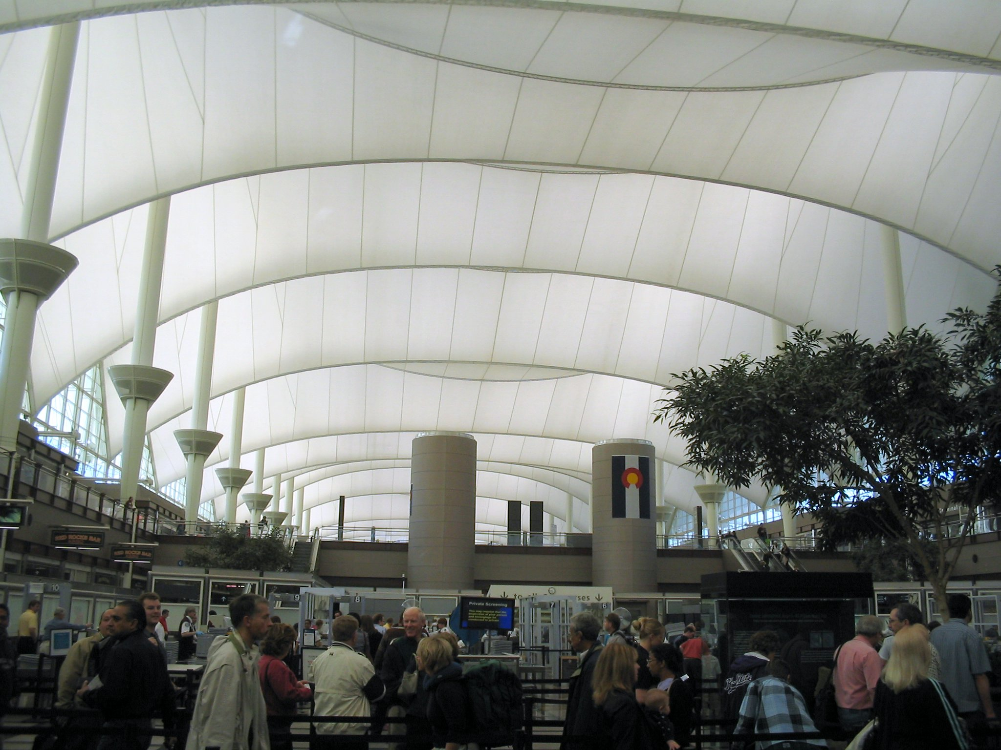 The canvas roof of Denver International Airport, seen from the security line. David Benbennick took this photo on Friday, April 22, 2005 at 9:29 AM (local time). For the second version of the image, I brightened it with Picasa2. Specifically, I used the "Auto Contrast" and "Auto Color" commands, and increased the "fill light".